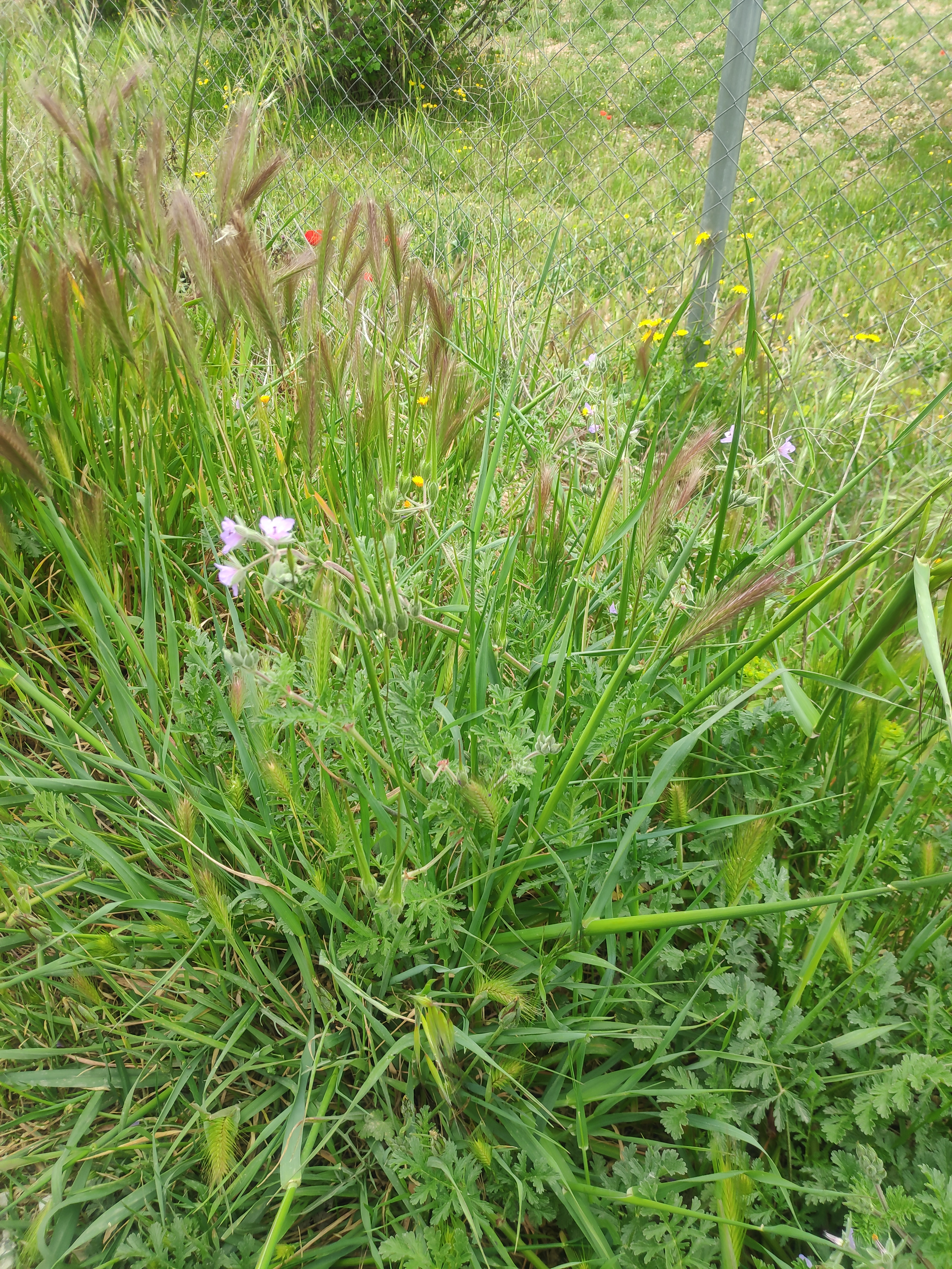 Common stork's-bill